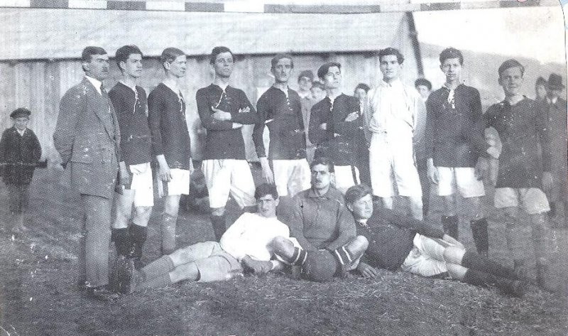 HŠK Zrinjski Mostar before World War I